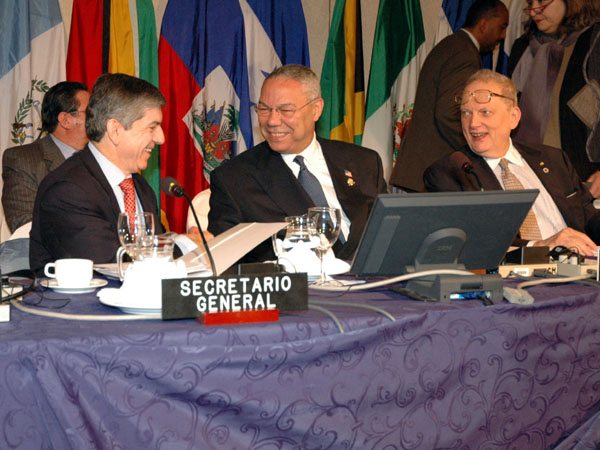 Cesar Gaviria and Colin Powell in the OAS XXXIV Regular Session.